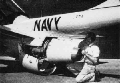 A technician working on Continental Motors J69-T-9 turbojet of a U.S. Navy Temco TT-1 Pinto trainer.